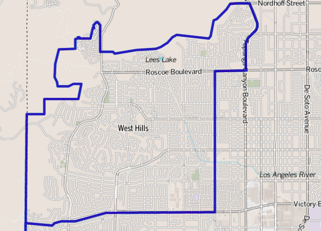 Map of West Hills, in the western San Fernado Valley, within Los Angeles. As drawn by the Los Angeles Times. Other information Boundary map as drawn by the Los Angeles Times on a CC-by-SA background. Note at bottom right of map on the L.A. Times website noted above says "CC-by-SA" (which gives permission to use the map). There is a link there to which explains the meaning thereof. The base map is credited to The Times spells all this out at